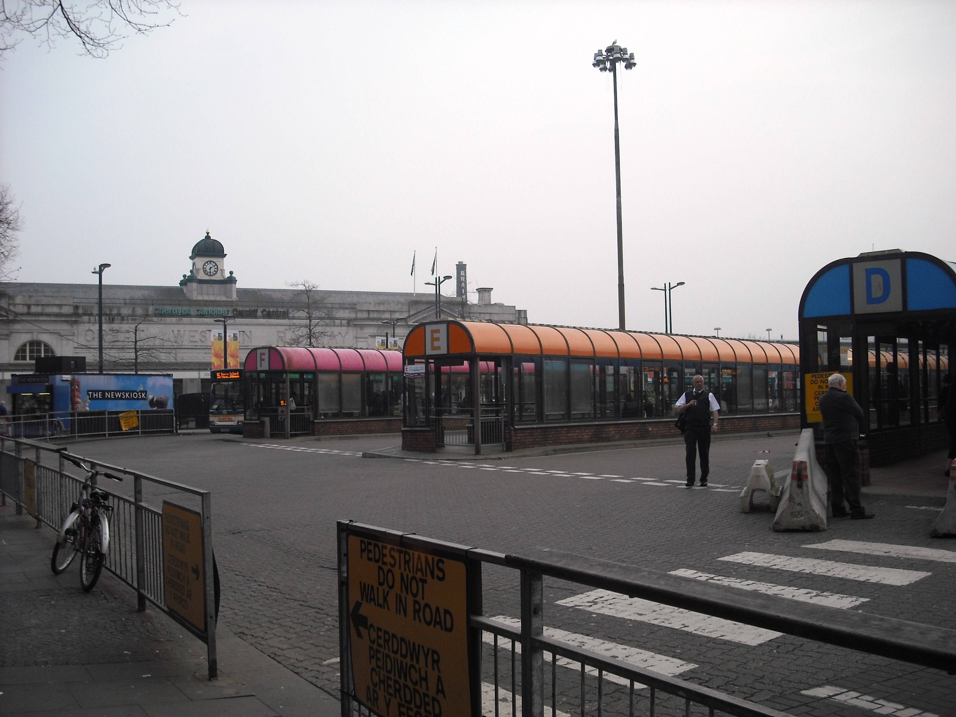 A view of the southern end of Cardiff Central bus station with Central railway station in the background